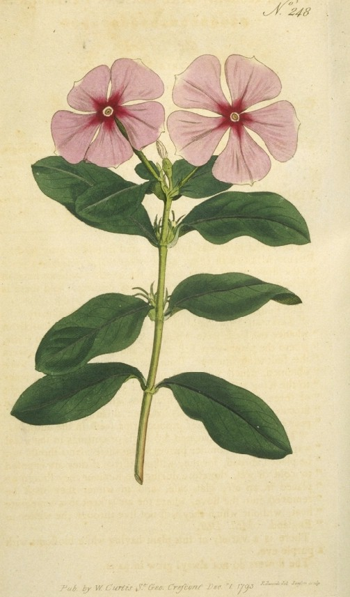 Madagascar Periwinkle or Vinca (Catharanthus roseus) from William Curtis' Botanical Magazine, ca. 1787-1807. Image from the National Agricultural Library, ARS, USDA